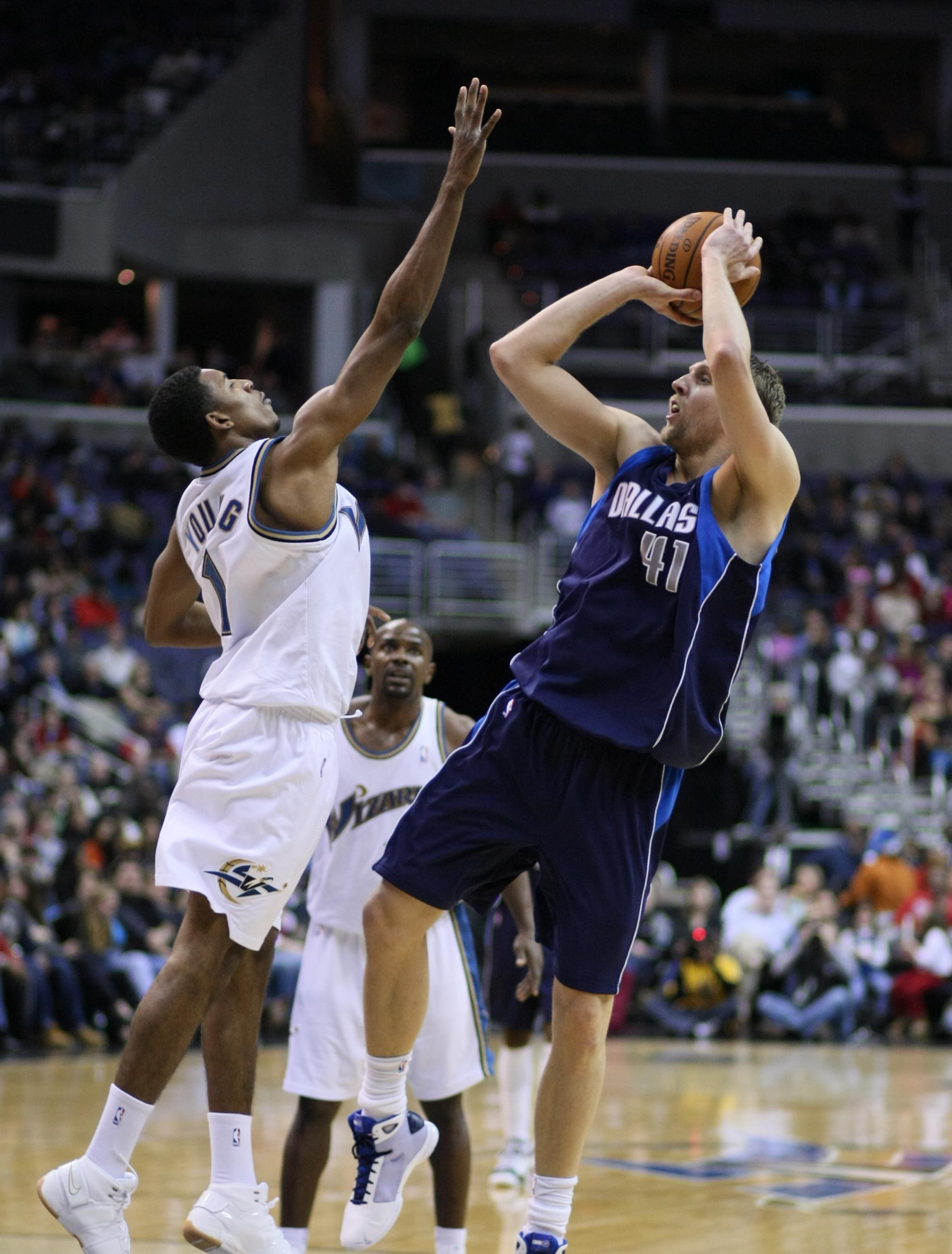 Dirk Nowitzki playing with the Dallas Mavericks